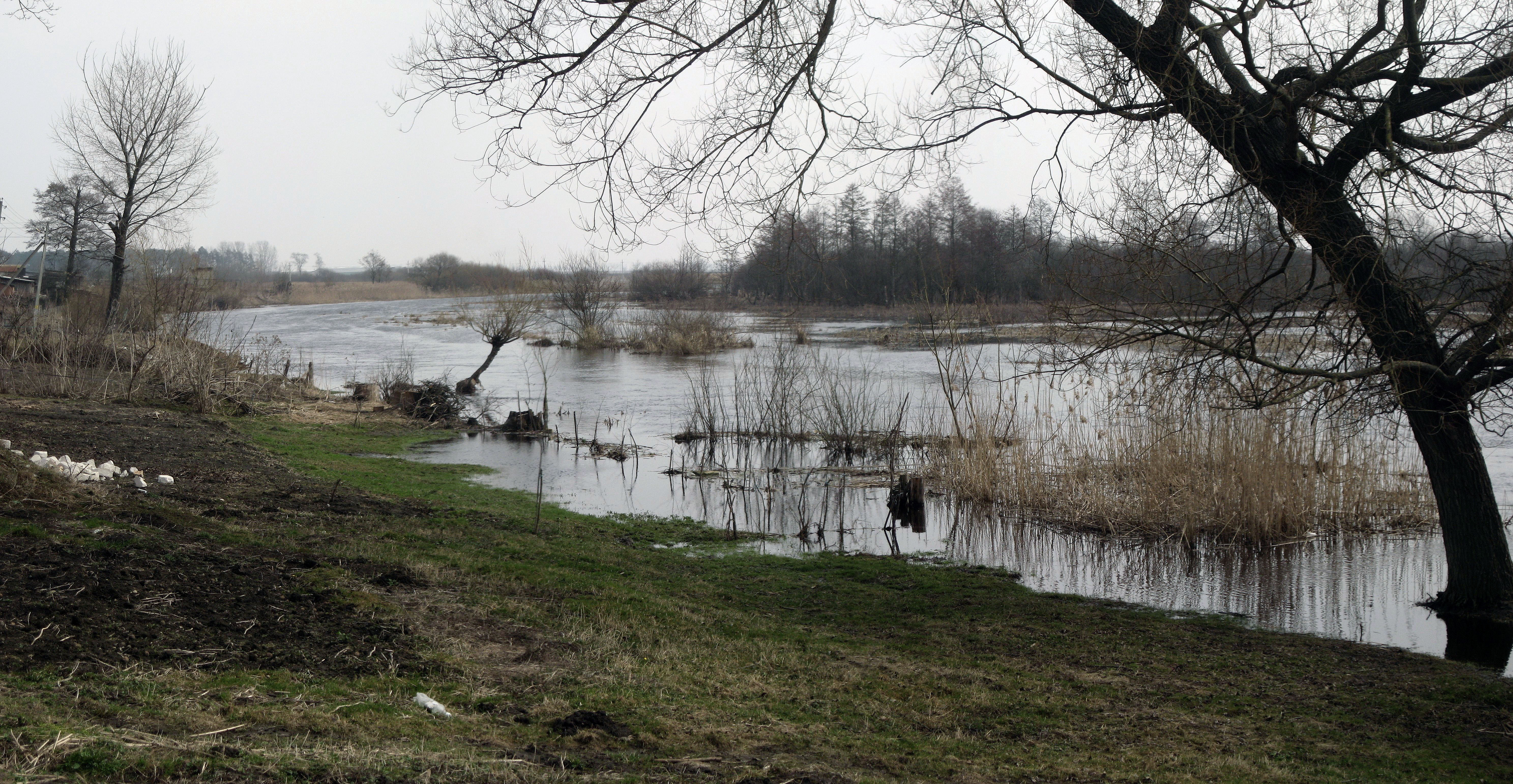 Freshet '10 at Sluch River in Belarus. The outskirts of Slutsk.